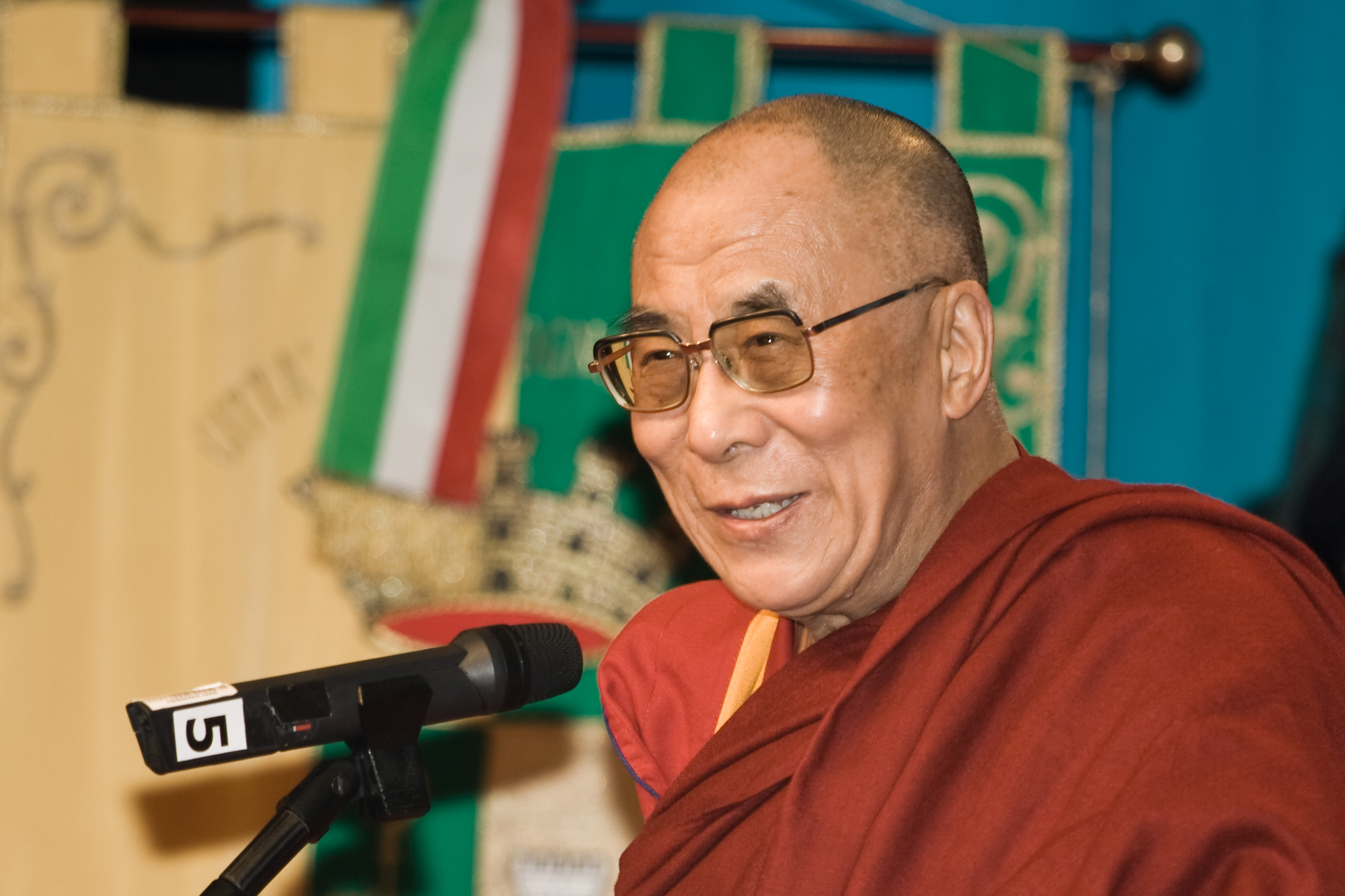 Tenzin Gyatso, the fourteenth and current Dalai Lama, is the leader of the exiled Tibetan government in India. He was awarded the Nobel Peace Prize in 1989. Photographed during his visit in Cologno Monzese MI, Italy, on december 8th, 2007.